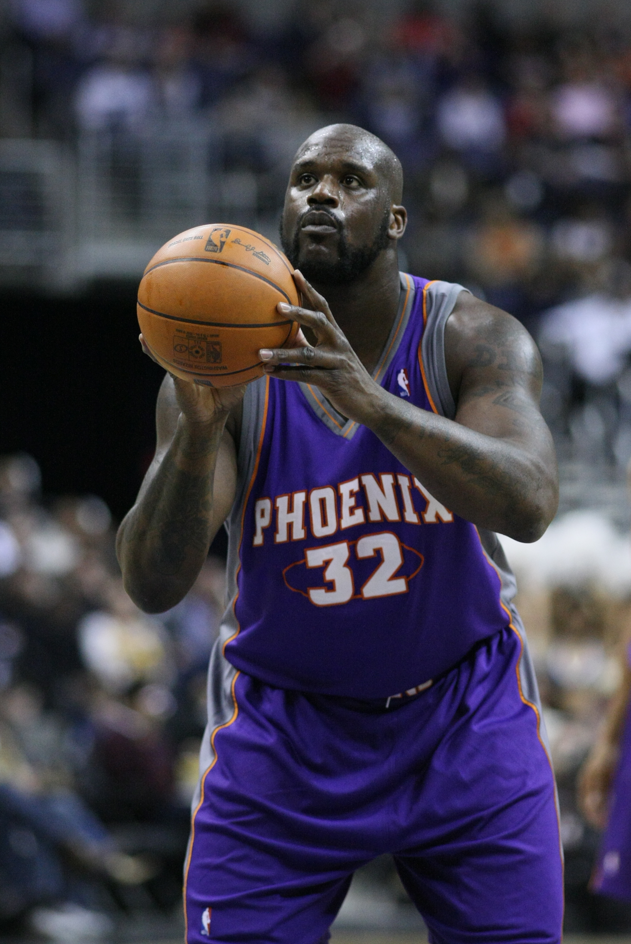 Shaquille O'Neal preparing to shoot a free throw